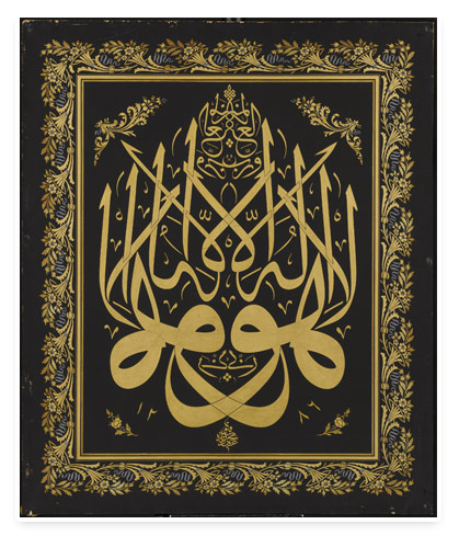 Framed inscription (Levha) by Mehmed Şefik (1820-1880), 1869, Gold on paper in celi sülüs script, 62 x 51.5 cm Sakip Sabanci Museum